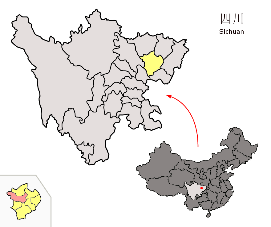 Location of Nanbu County (pink) and Nanchong Prefecture (yellow) within Sichuan province of China Map drawn in october 2007 using various sources, mainly : Sichuan province administrative regions GIS data: 1:1M, County level, 1990 Sichuan Counties map from